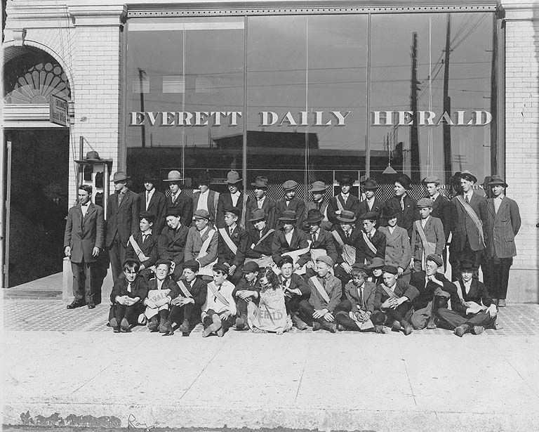 Newsboys for the Everett Daily Herald newspaper, Everett, Washington, ca. 1929 Photographer: Unknown Subjects (LCSH): Paperboys--Washington (State)--Everett Everett Daily Herald (Everett, Wash.) Offices--Washington (State)--Everett Digital Collection: Washington Localities Collection Item Number: WAS0692 Persistent URL: Visit Special Collections reproductions and rights page for information on ordering a copy. University of Washington Libraries. Digital Collections